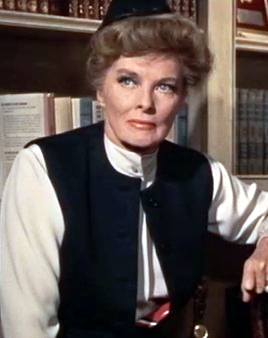 Cropped screenshot from the trailer for the film Guess Who's Coming to Dinner (1967), featuring Katharine Hepburn. Public domain explanation Trailers created prior to 1976 were copyrighted under the Copyright Act of 1909, which determined that in the 28th year, the owner of the copyright had to renew the copyright. If he did not, his work went into the public domain (see here). The copyright for this trailer would therefore have to be renewed in 1995. Searching for "Guess Who's Coming to Dinner" with the United States Copyright Office reveals that the move has its copyright renewed, as did the music for the film, but there is no evidence that this was secured for the trailer. It is possible that copyright was never properly secured for the trailer in the first place. Under the 1909 Copyright Act, which was law until 1978, copyright required 1) publishing the item with a copyright notice; 2) depositing two copies of the item with the Unites States Copyright Office (see here). Creative Clearance notes that most trailers were not registered with the Copyright Office in this way. The lack of a copyright renewal for this trailer, despite the fact that the movie and music secured it, suggests this may have been the case.